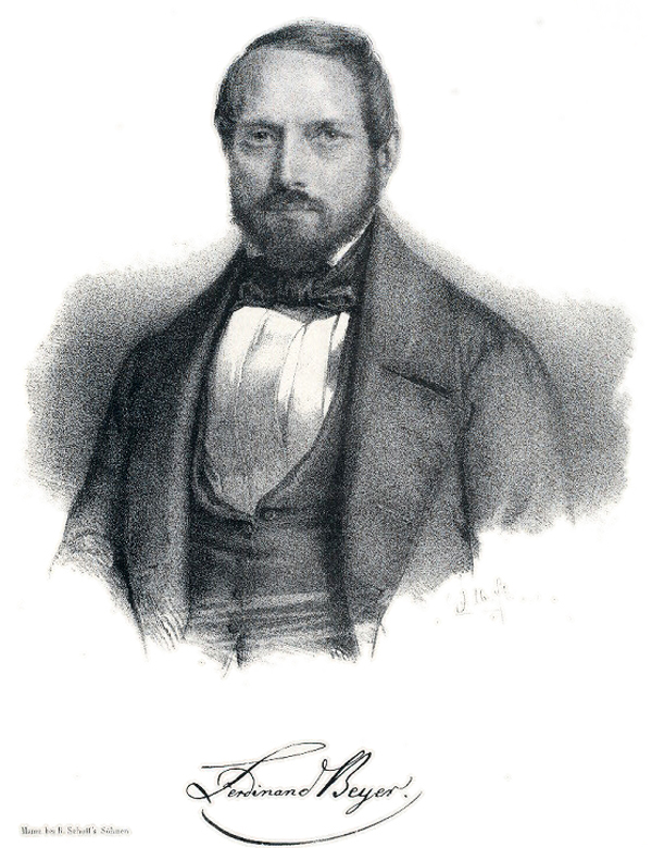 Beyer, Ferdinand 1803-1863